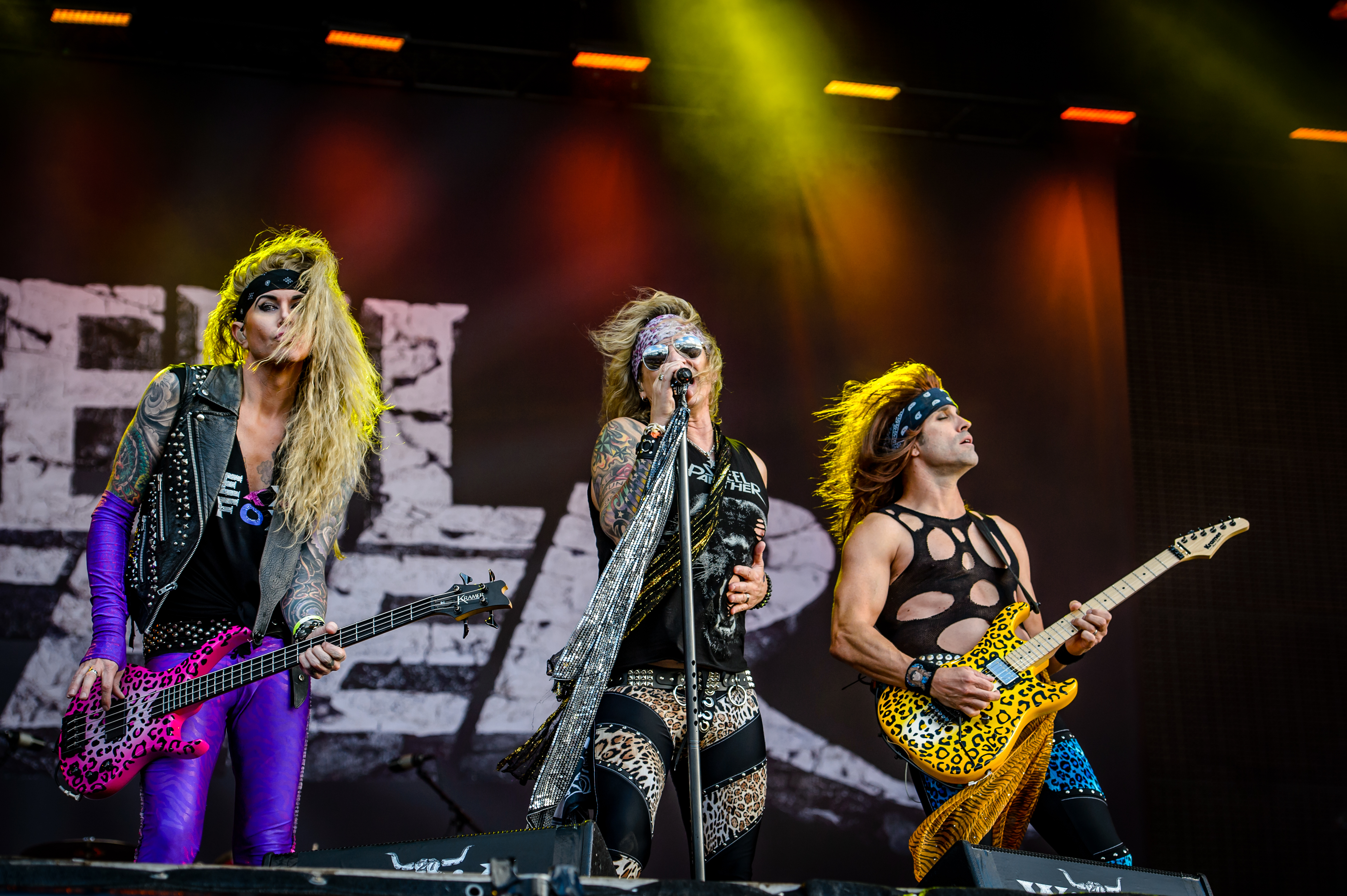 Steel Panther; Wacken Open Air 2016